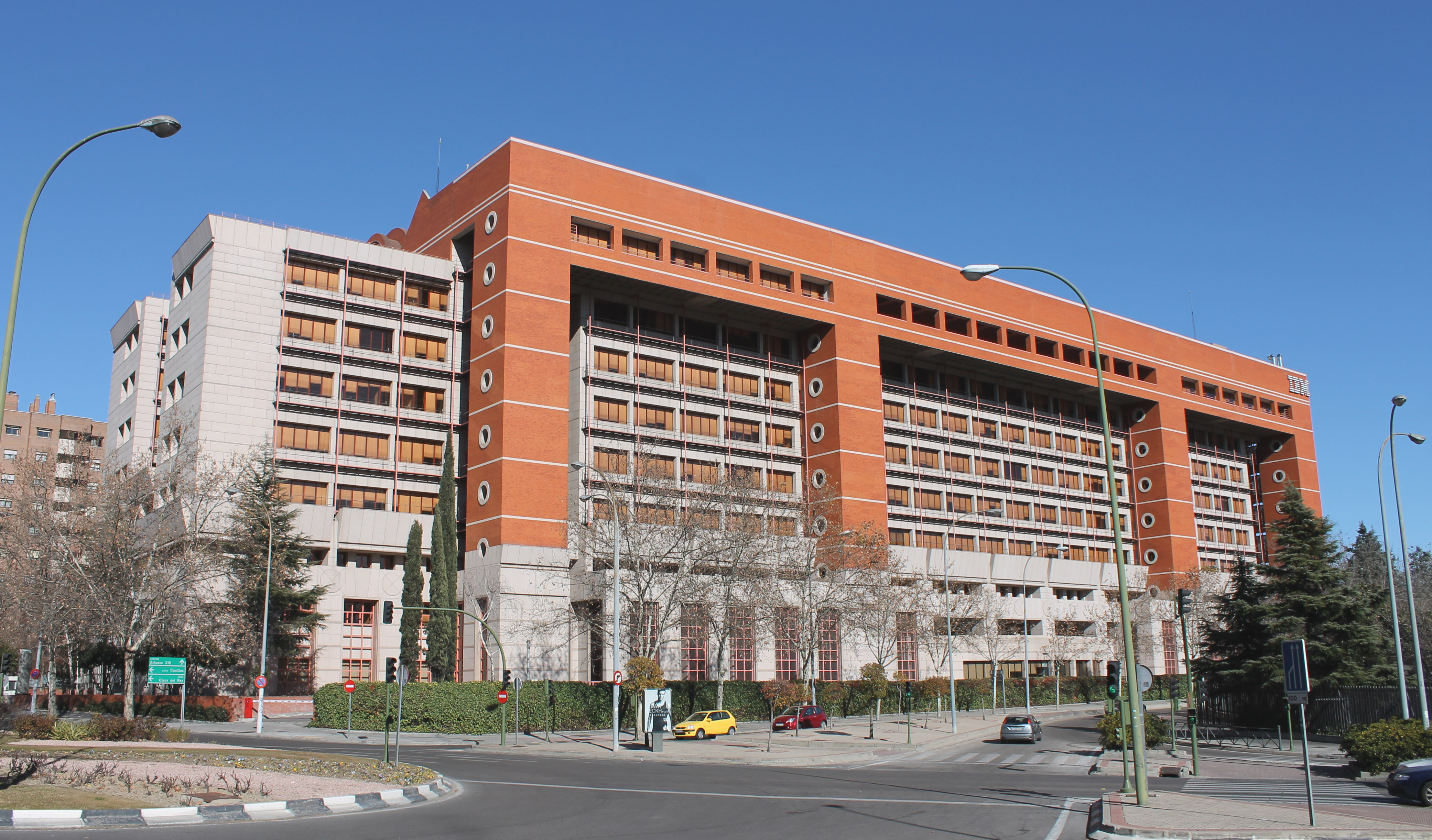 View of IBM offices in Madrid (Spain).